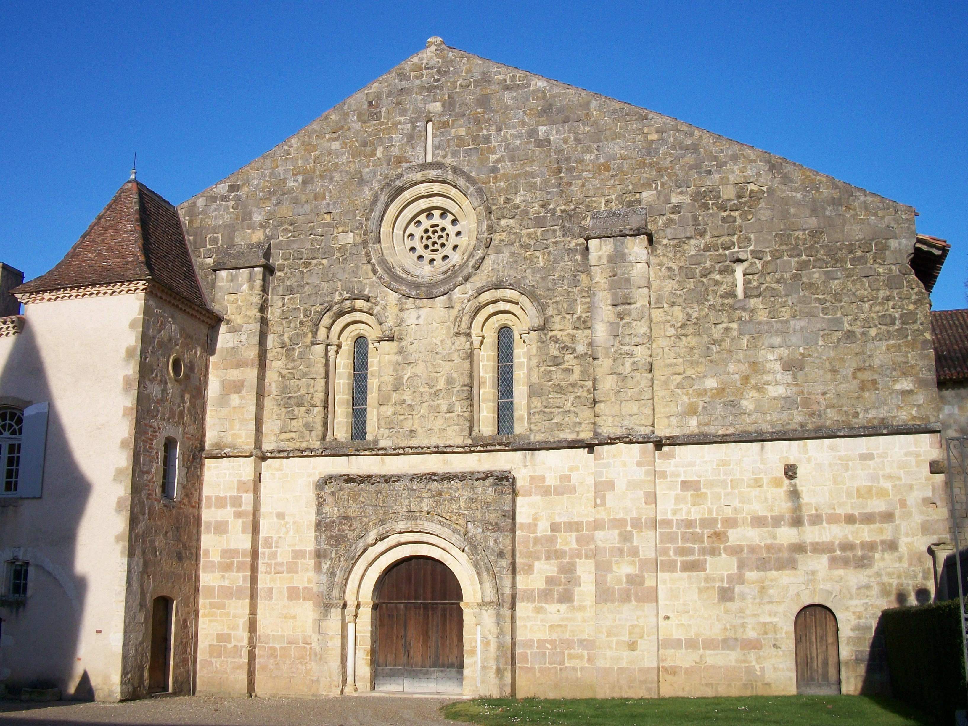 Flaran Abbey Church, Valence-sur-Baïse, Gers, France.